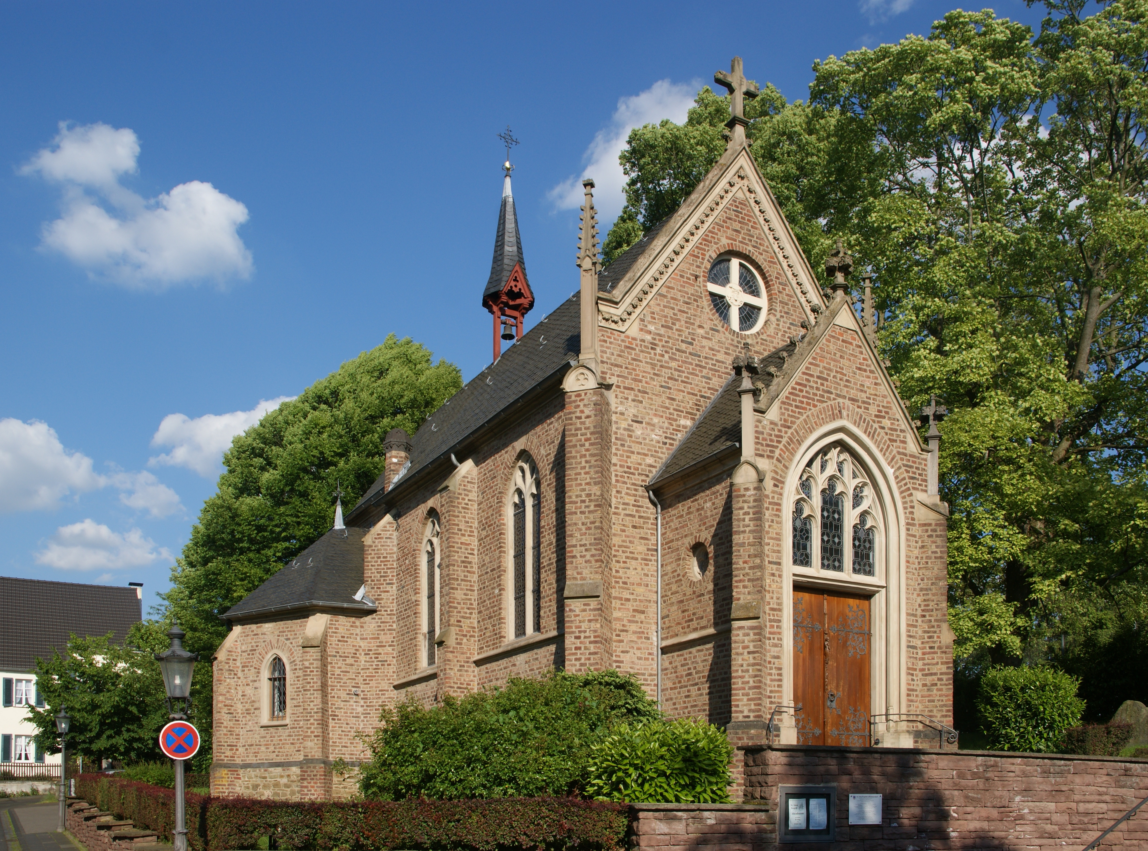 The Anna Chapel in the Bad Honnefer district Rommersdorf